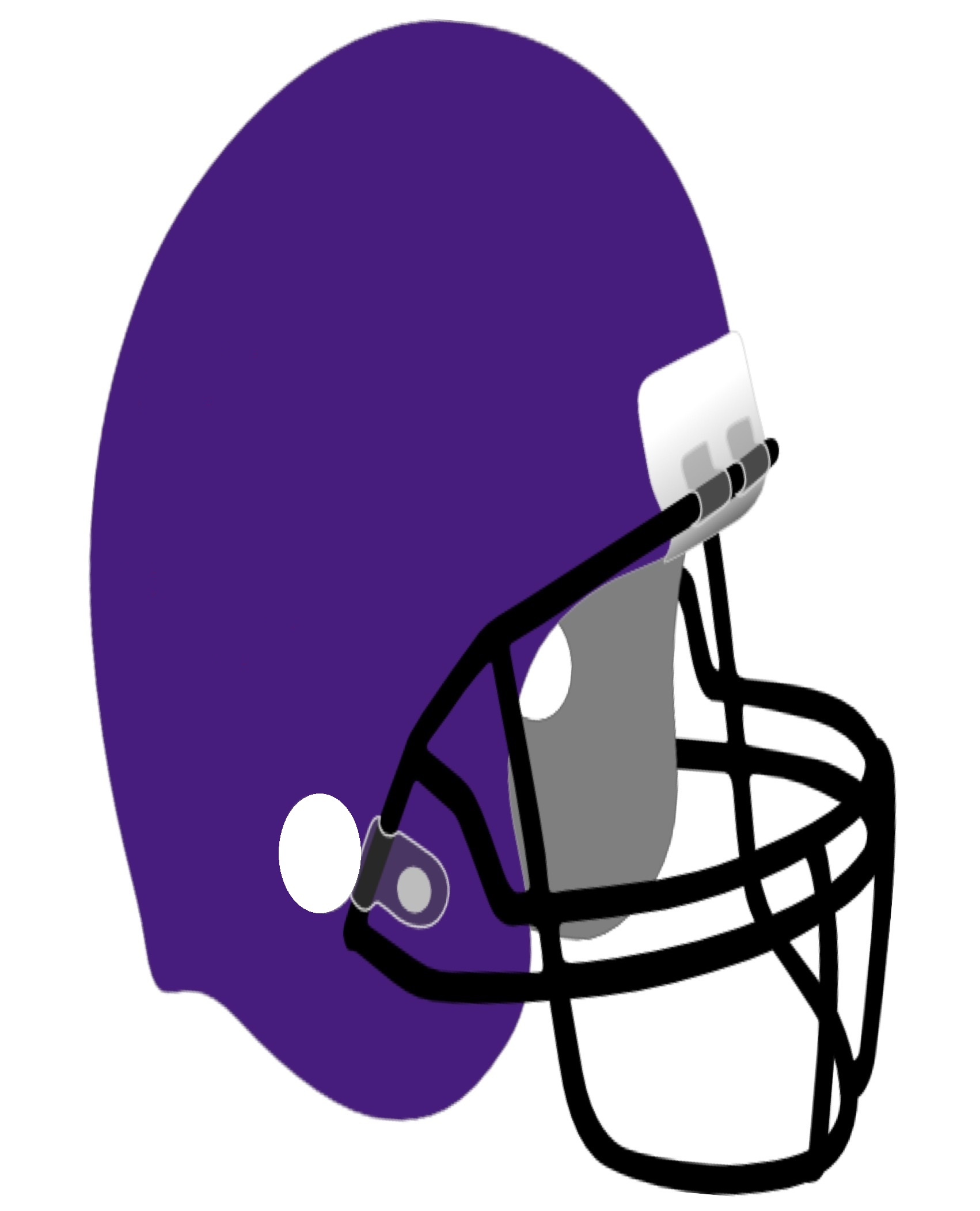 Helmet of the American football team from Frankfurt